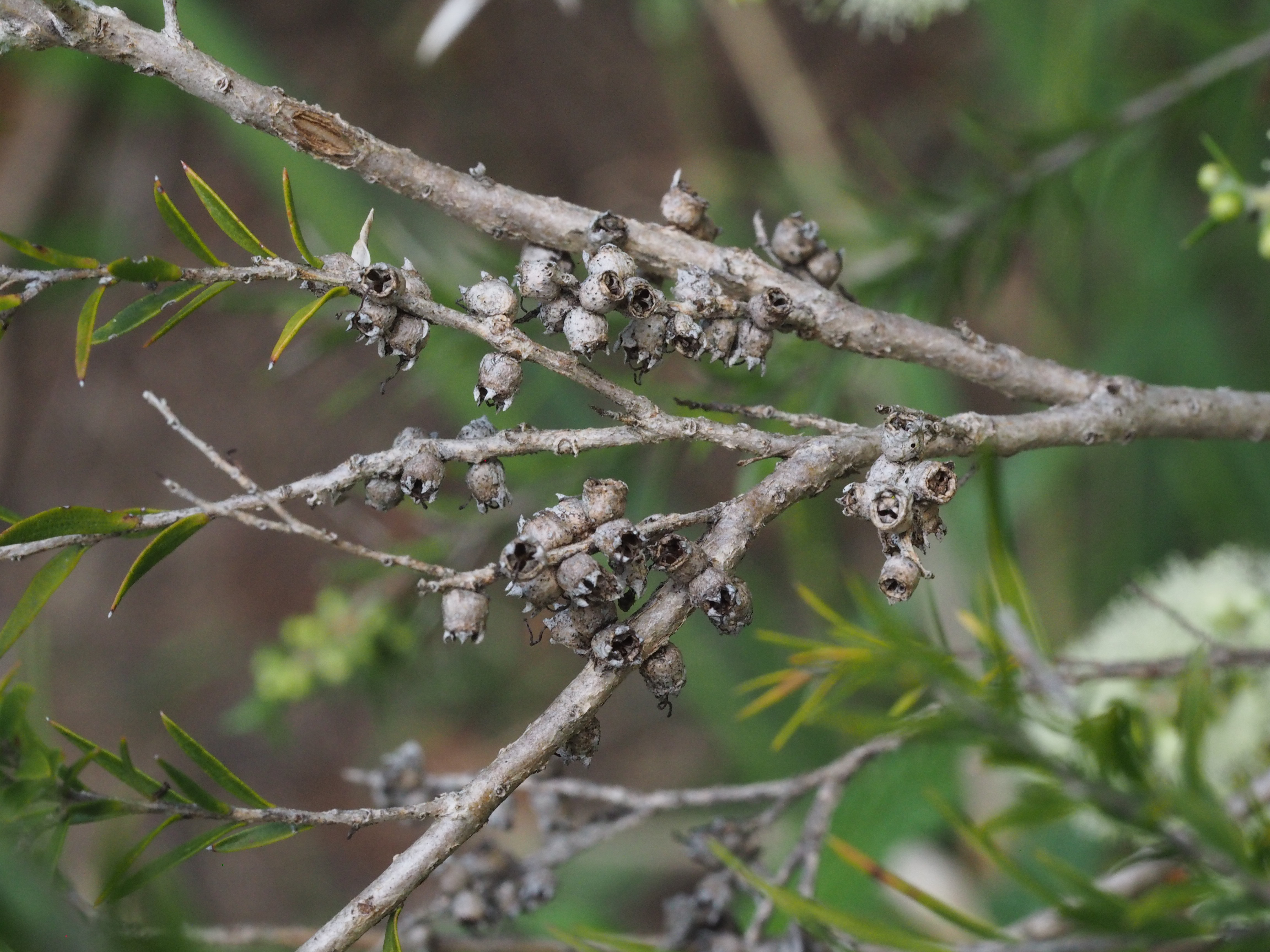 Melaleuca bracteata growing near the Wollomombi River in the Oxley Wild Rivers National Park about 300m upstream from Wollomombi Falls